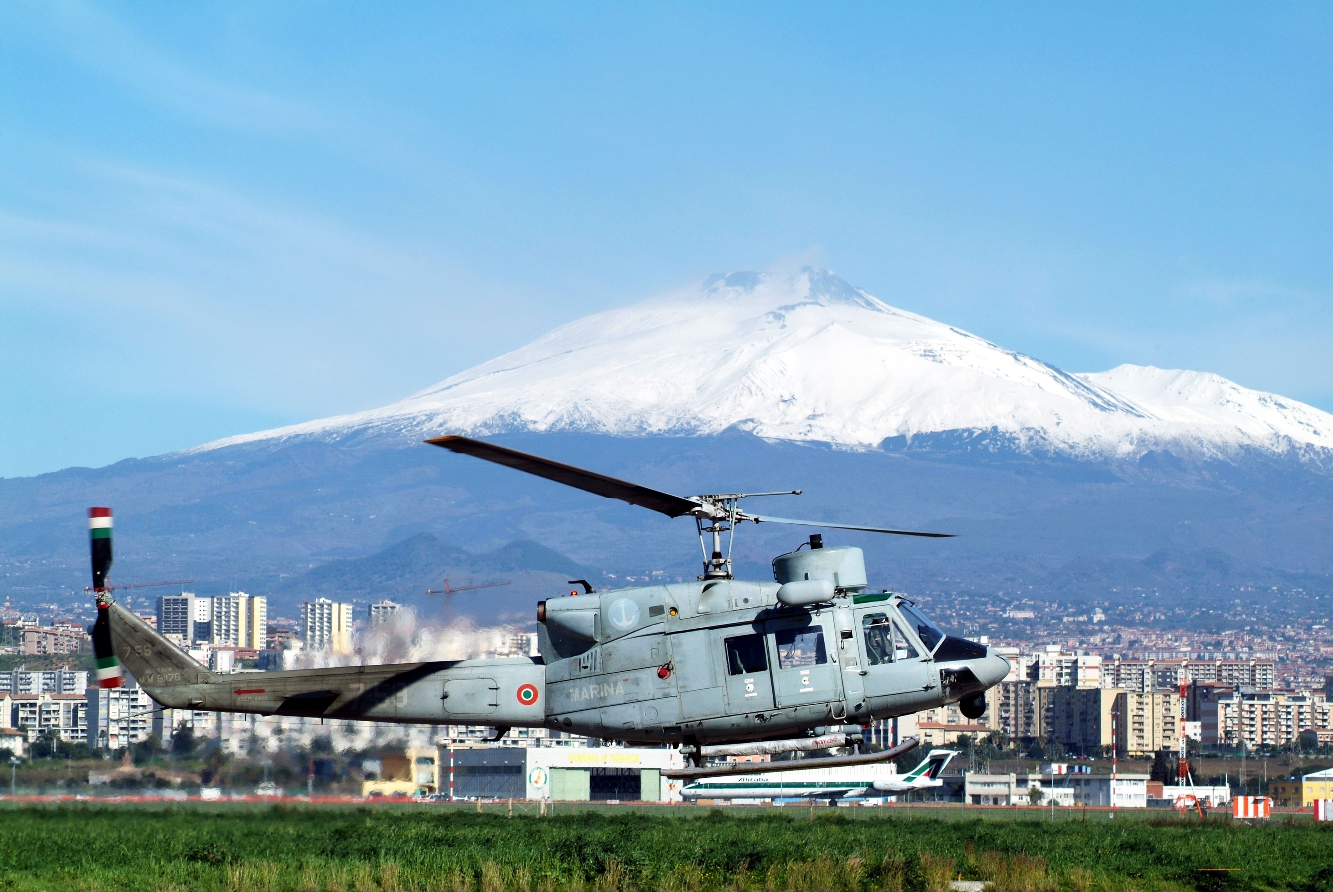 Agusta-Bell AB.212ASW MM81176 7-59 of 2º Grupelicot - Catania Italian Navy. Mount Etna in the background is gently smoking!